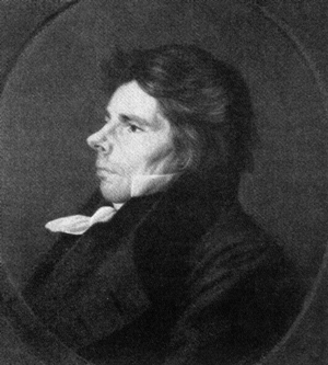 Christian Philipp Köster, gemalt von Johann Jakob Schlesinger